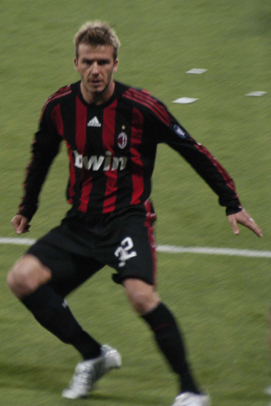 David Beckham at Al Saad Sports stadium. Al Saad versus AC Milan